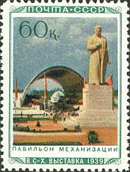 Stamp of the Soviet Union, 1940. Stalin Statue, All-Union Agricultural Exhibition, Moscow. CPA #767, Michel #779.